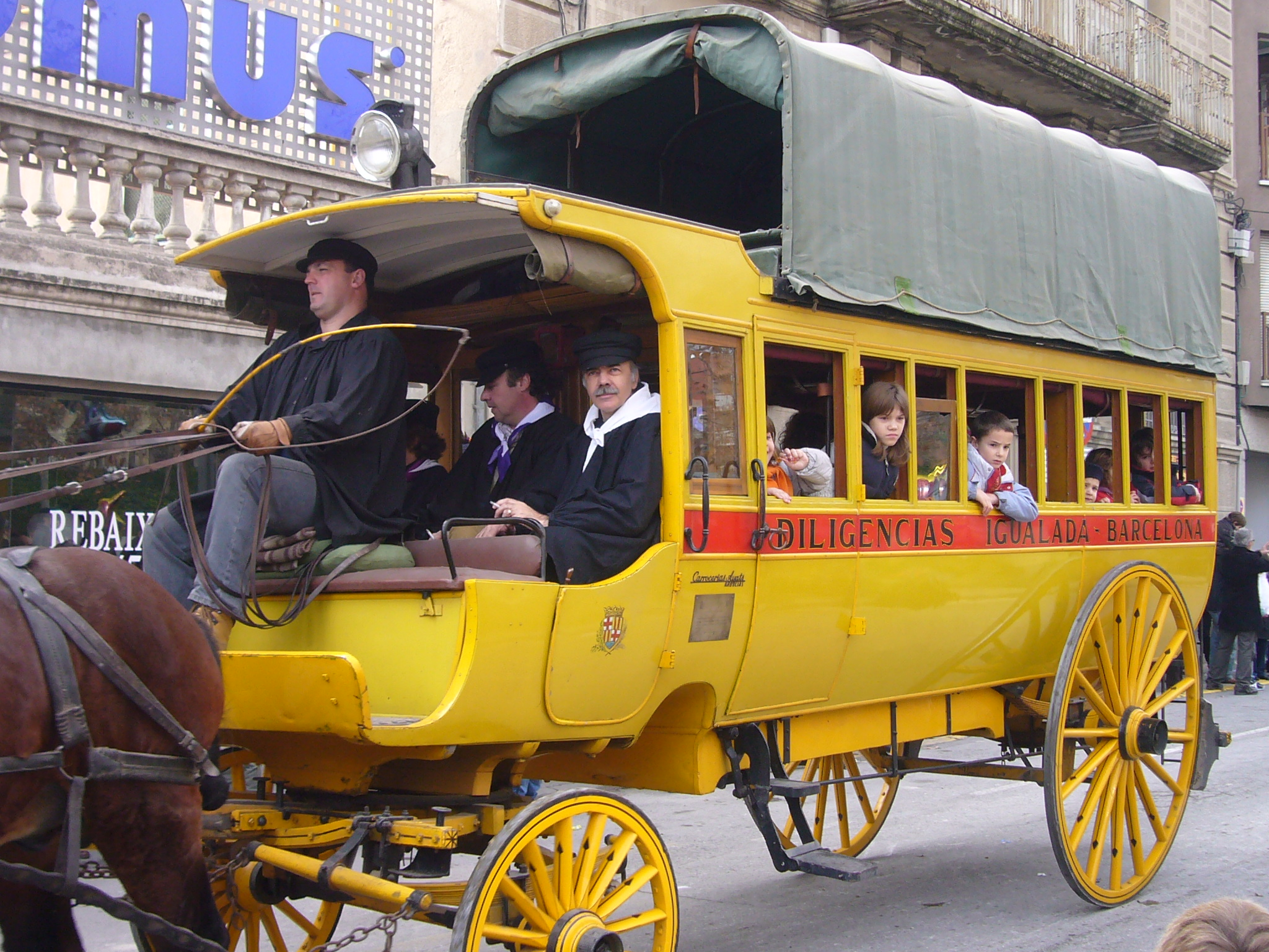 Stagecoach Igualada-Barcelona (Catalonia). Original ones were used from 1828 to 1893. This one was built in 1960, and is used every year at the Tres Tombs parade in Igualada.